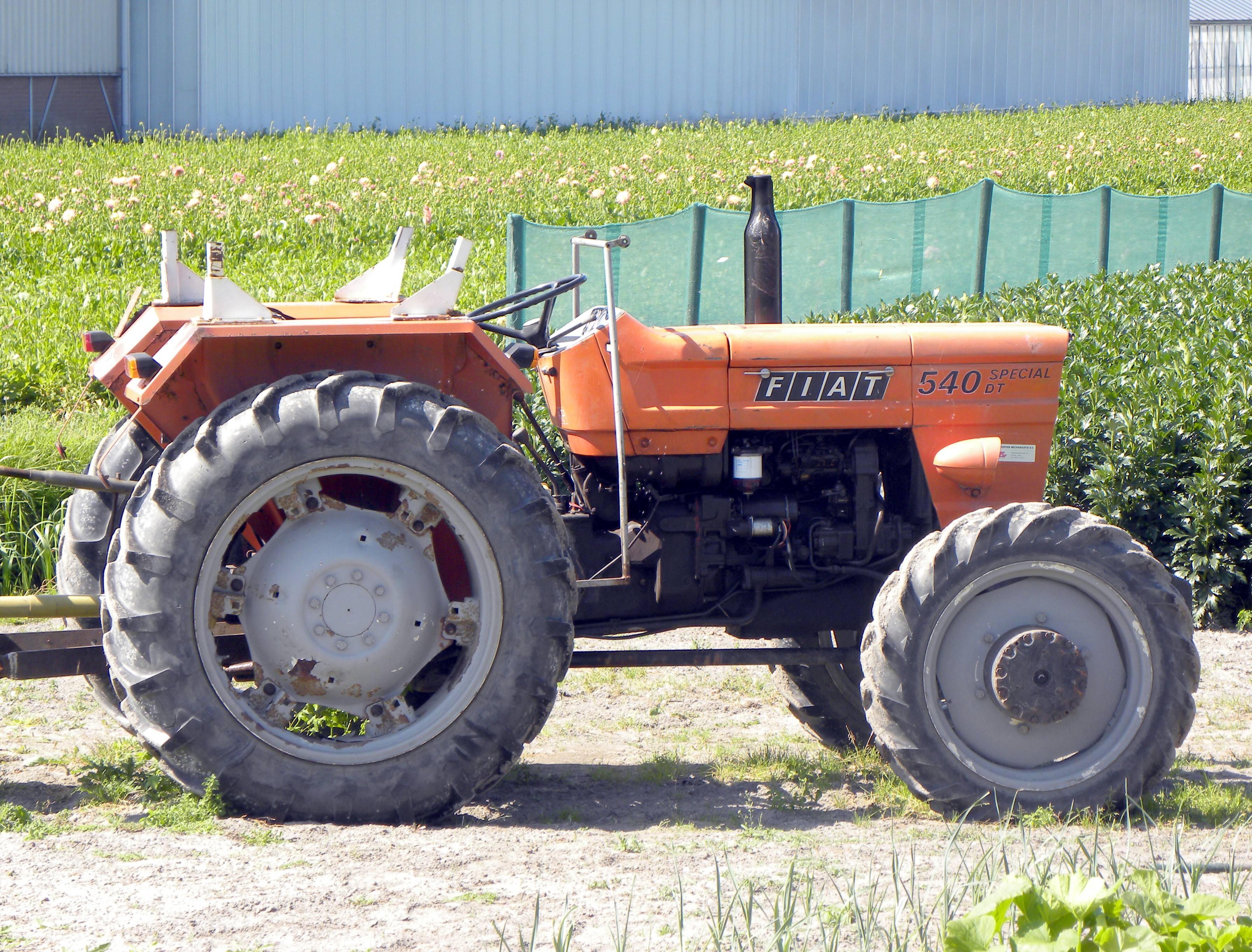 Fiat 540 DT Special tractor, produced from 1973 to 1978